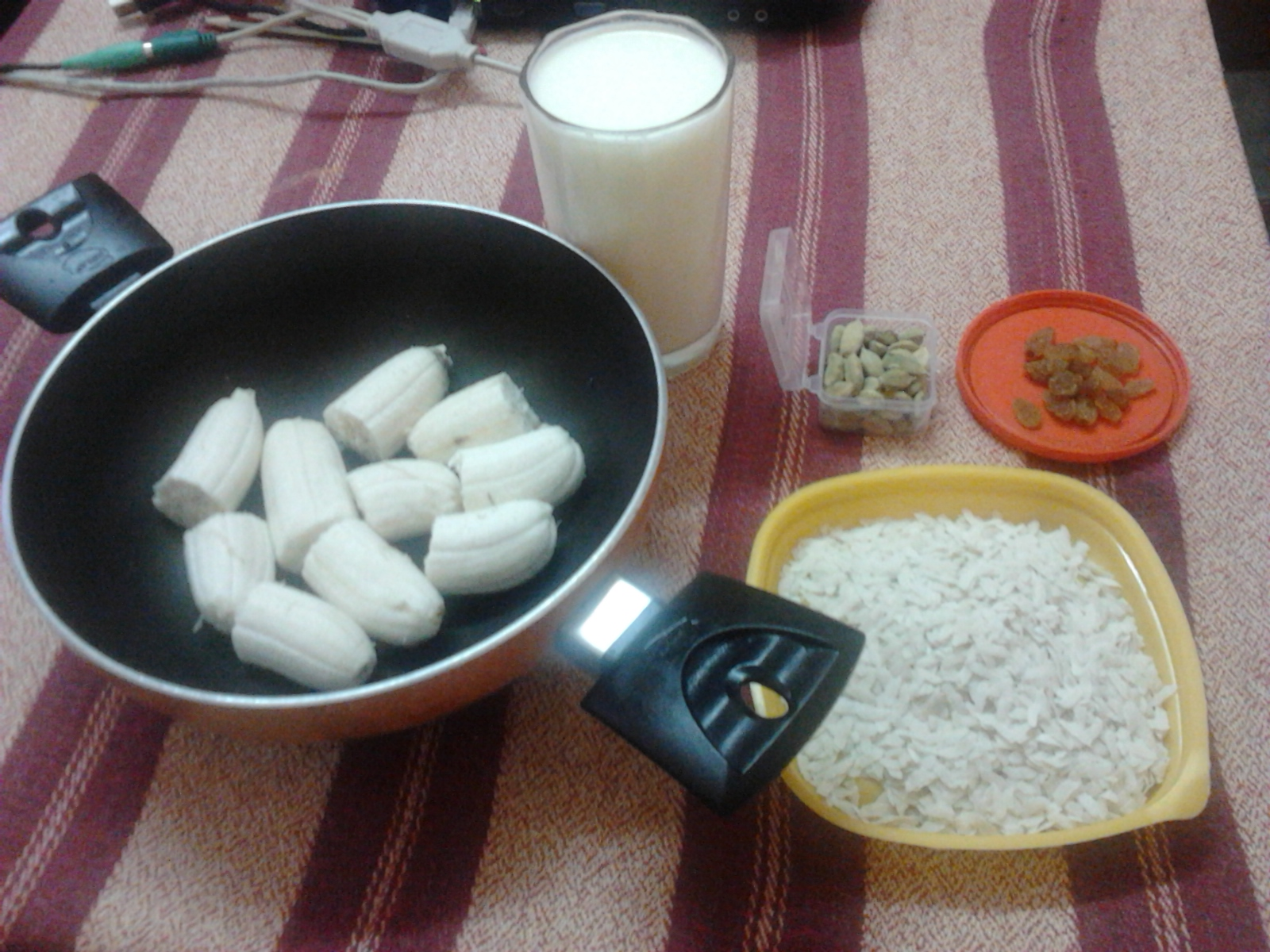 Items for the preparation of Aval-Milk